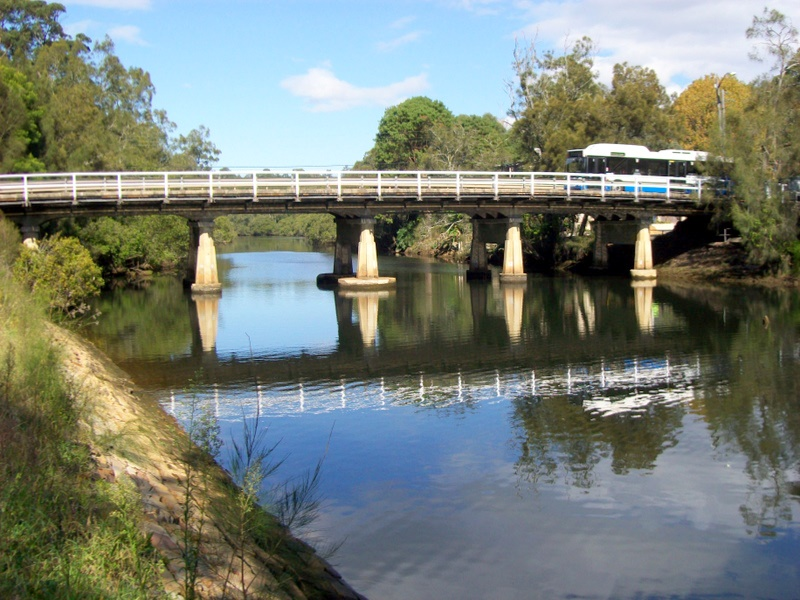 Fullers Bridge, Chatswood West & State Government Bus. Lane Cove River